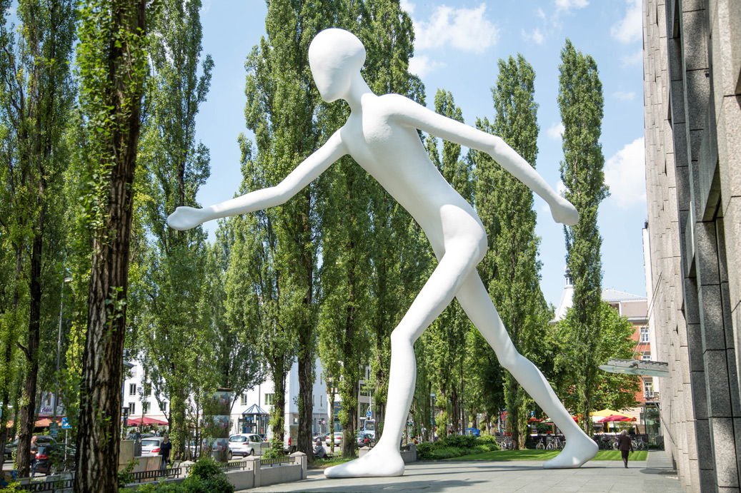 The Walking Man in Munich's Schwabing district in 2015.